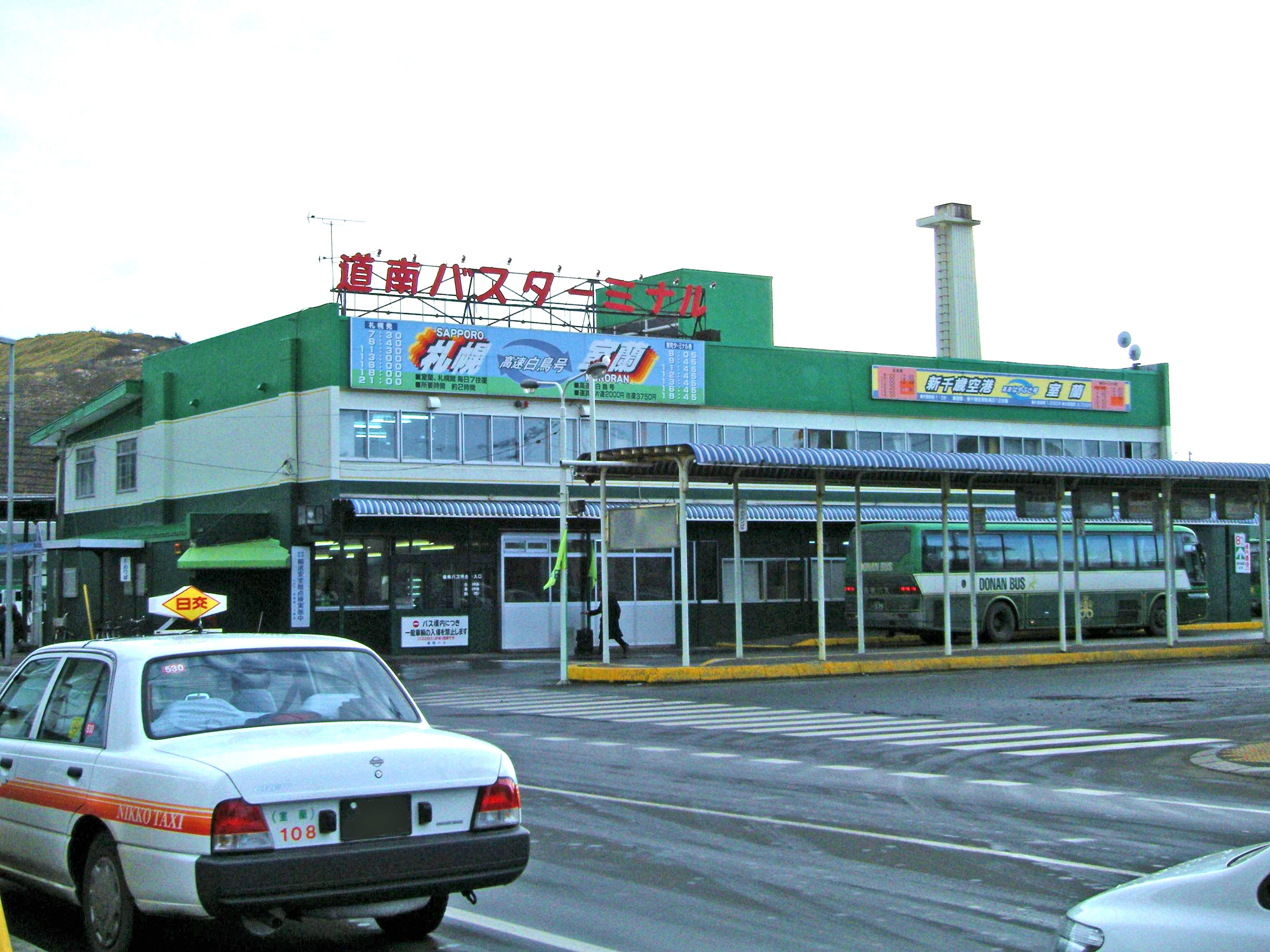 Donan Bus Higashimachi Terminal in Muroran City, Hokkaido, Japan